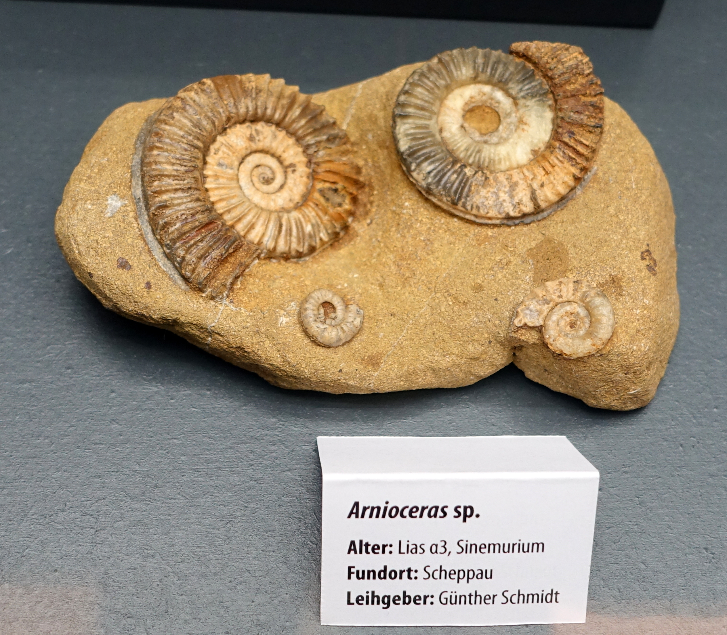 Exhibit in the Naturhistorisches Museum, Braunschweig, Germany.